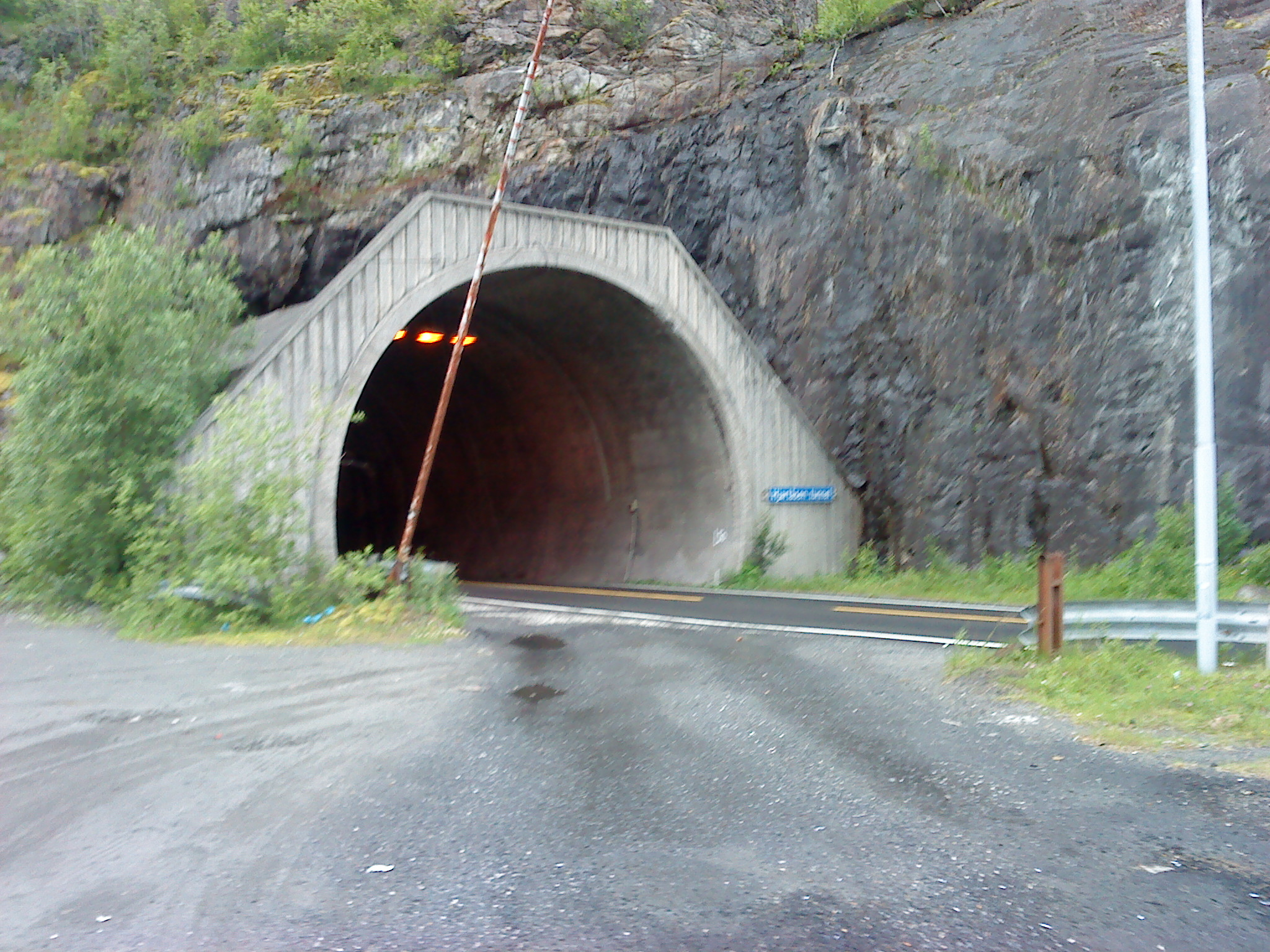 Road tunnel